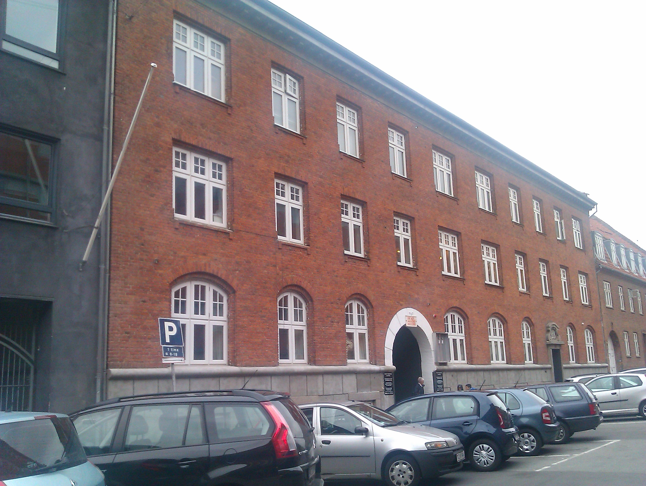 The building Heimdalsgade 35-37 - Nørrebro, Copenhagen, DenmarkDansk: Bygningen Heimdalsgade 35-37 - Nørrebro, København, Danmark